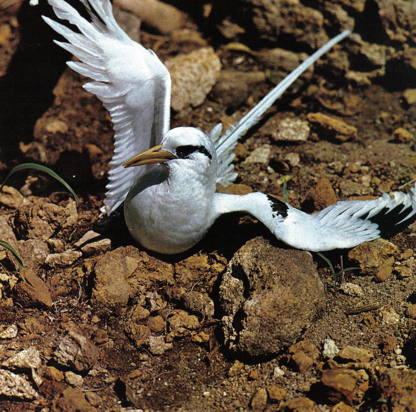 Tropic Bird (Phaeton lepturus), Seychelles